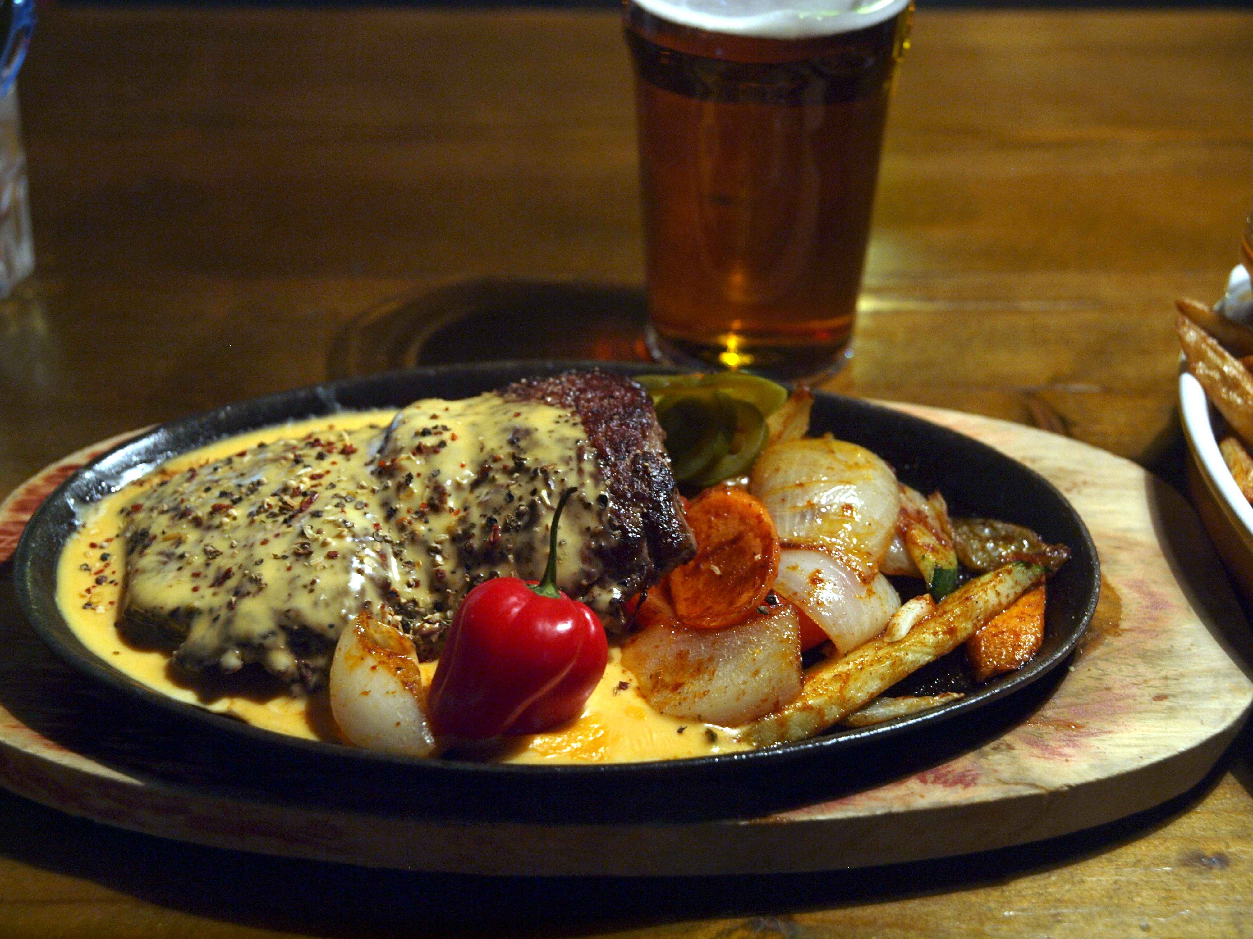 A Mexican-style pepper steak dish of beef, served with sliced jalapeño peppers, a fresh habanero pepper, stewed vegetables, pepper sauce and French fries (French fries not shown), along with a glass of beer, served at restaurant Pancho Villa in central Tampere, Pirkanmaa, Finland.